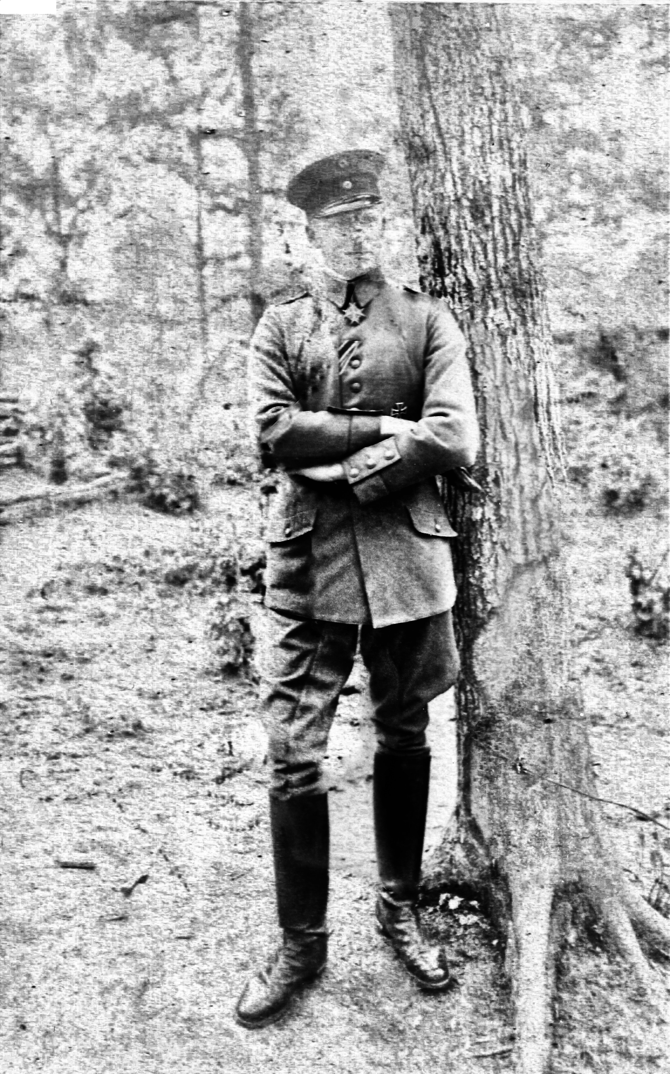 Photo of Kurt Rackow, taken after the capture of Fort Vaux in June 1916. The back of the photo is signed by Rackow, reading "In Erinnerung an die Tage von Vaux. Kurt Rackow" (English translation: "In memory of the days of Vaux. Kurt Rackow").